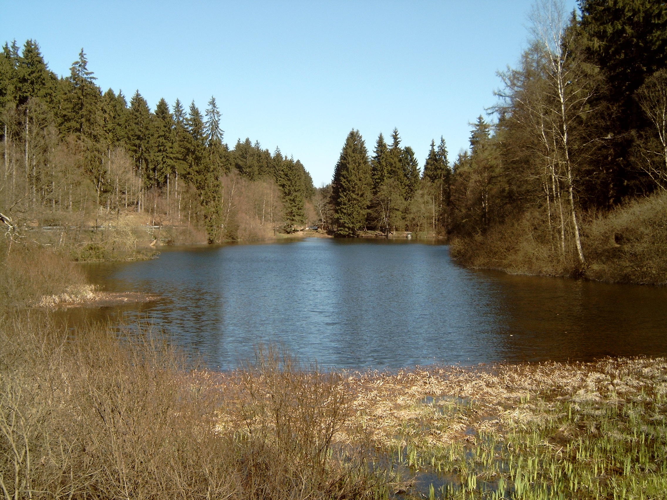 "Neuer Teich" in the Solling